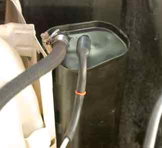 EVAP activated carbon canister of a Mercedes W123